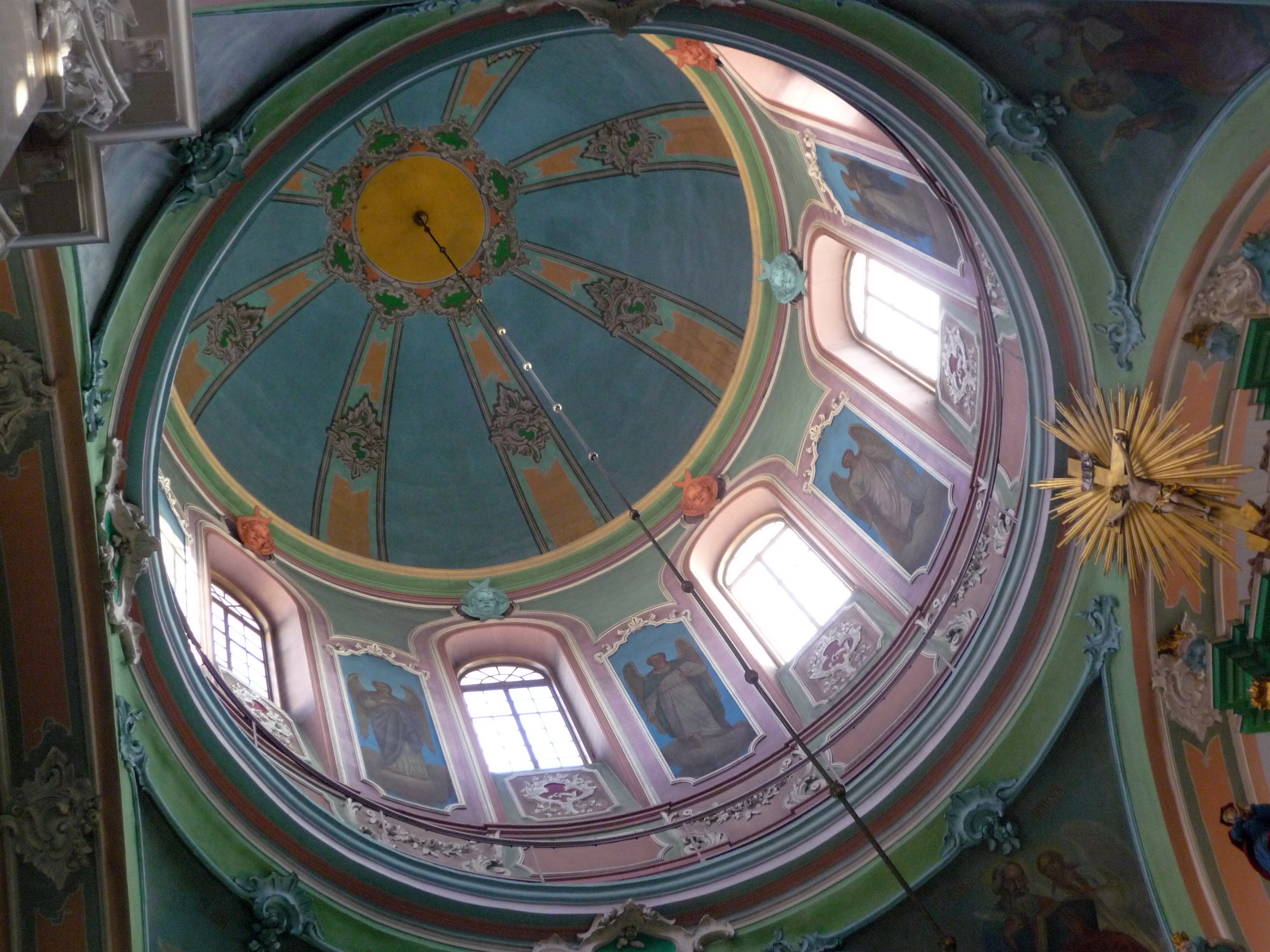 Russian-Orthodox Church of the Holy Spirit in Vilnius - dome